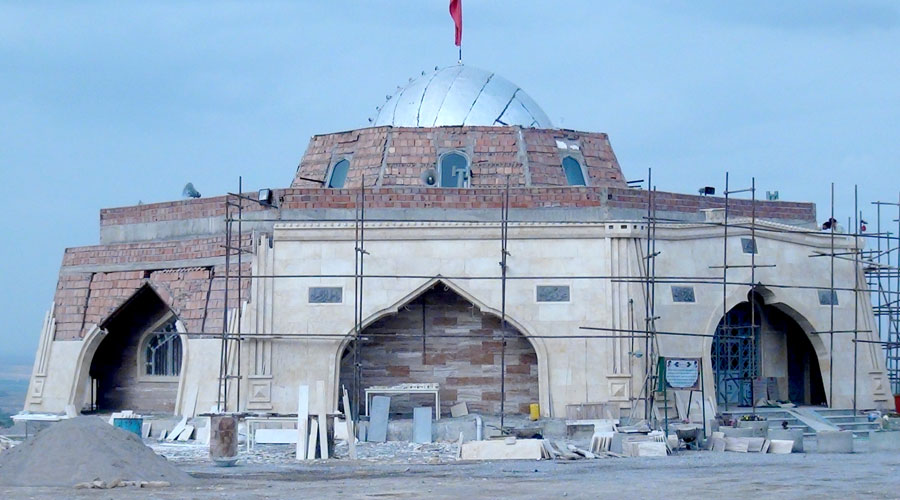 (پیرحیران (مقبره شهدای گمنام ممقان